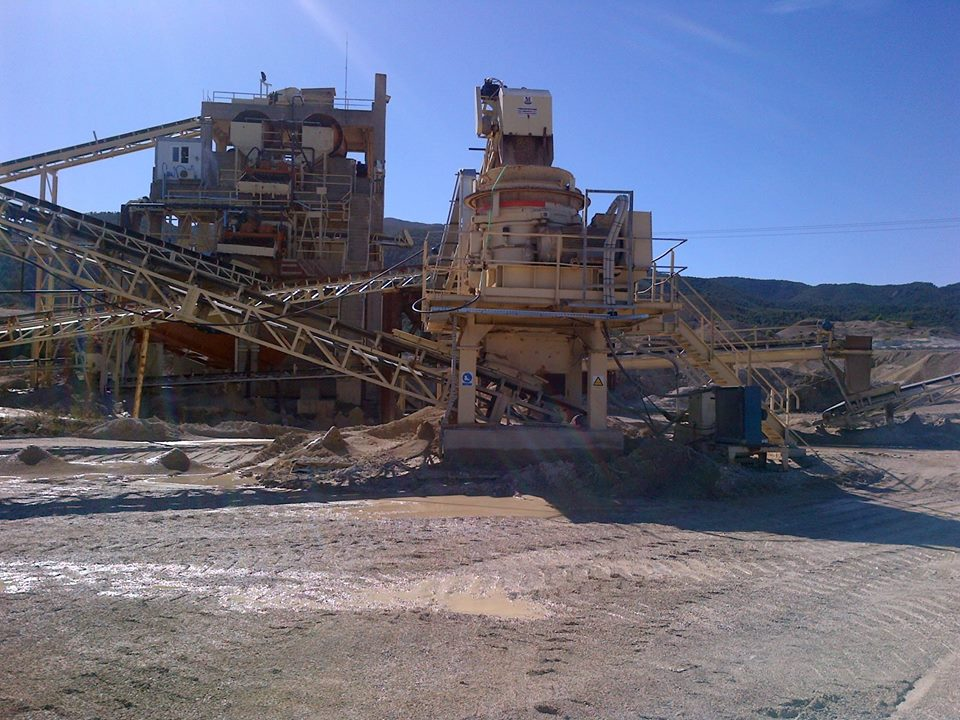 TERNA MAGmagnesite and magnesia producer in the northern part of Euboea island